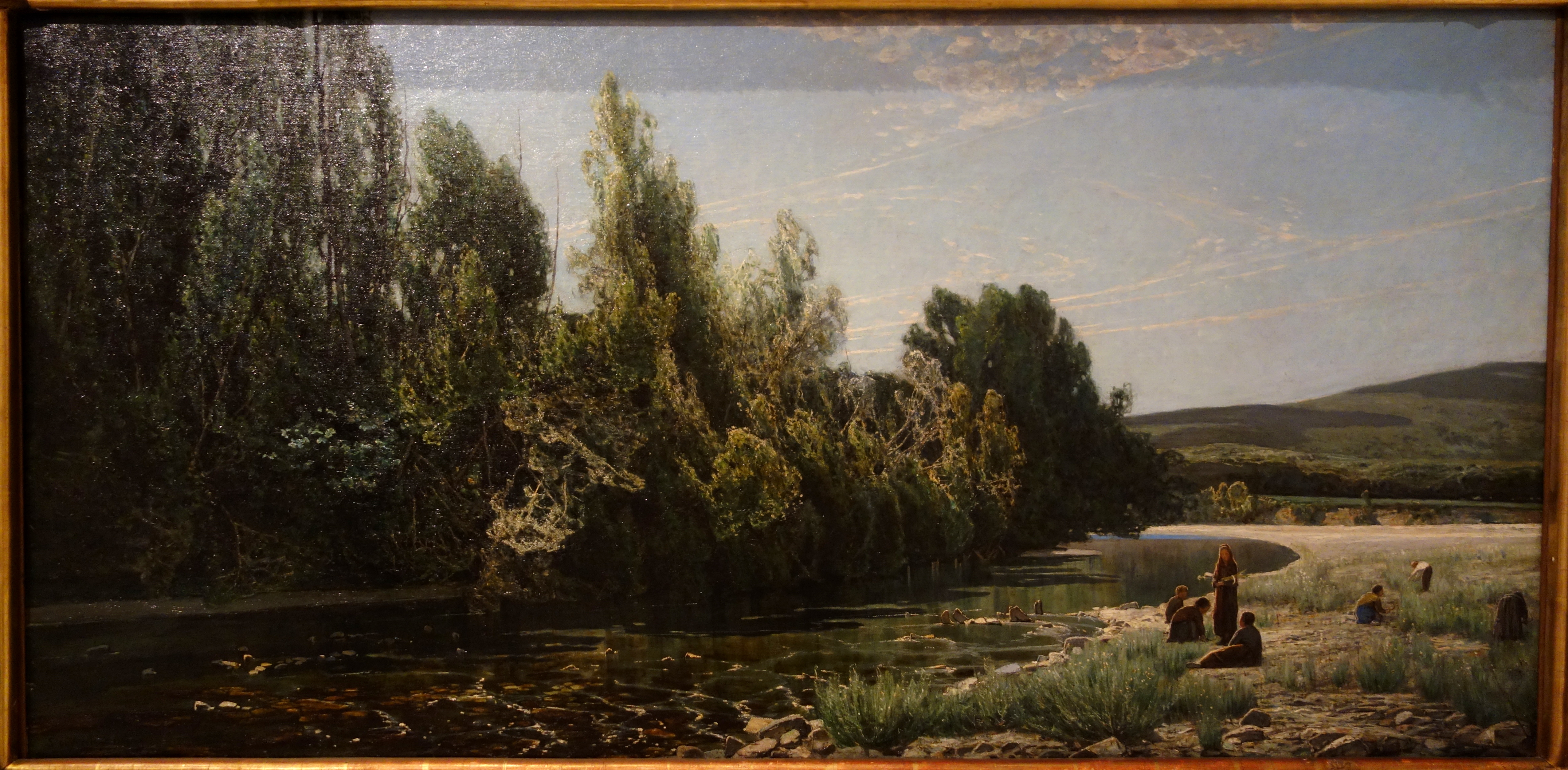 Along the Bormida